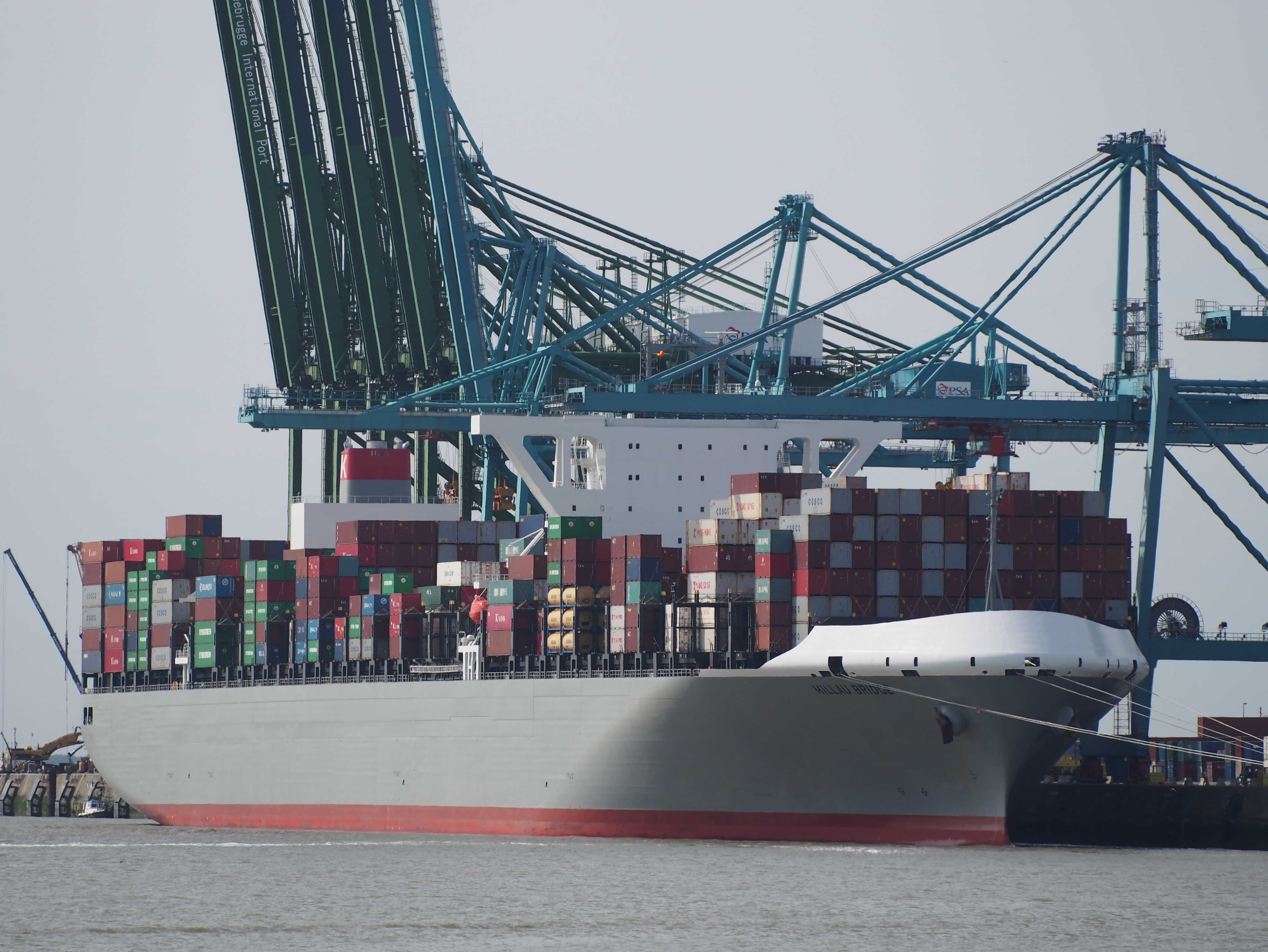 MILLAU BRIDGE - IMO 9706736, Port of Antwerp.